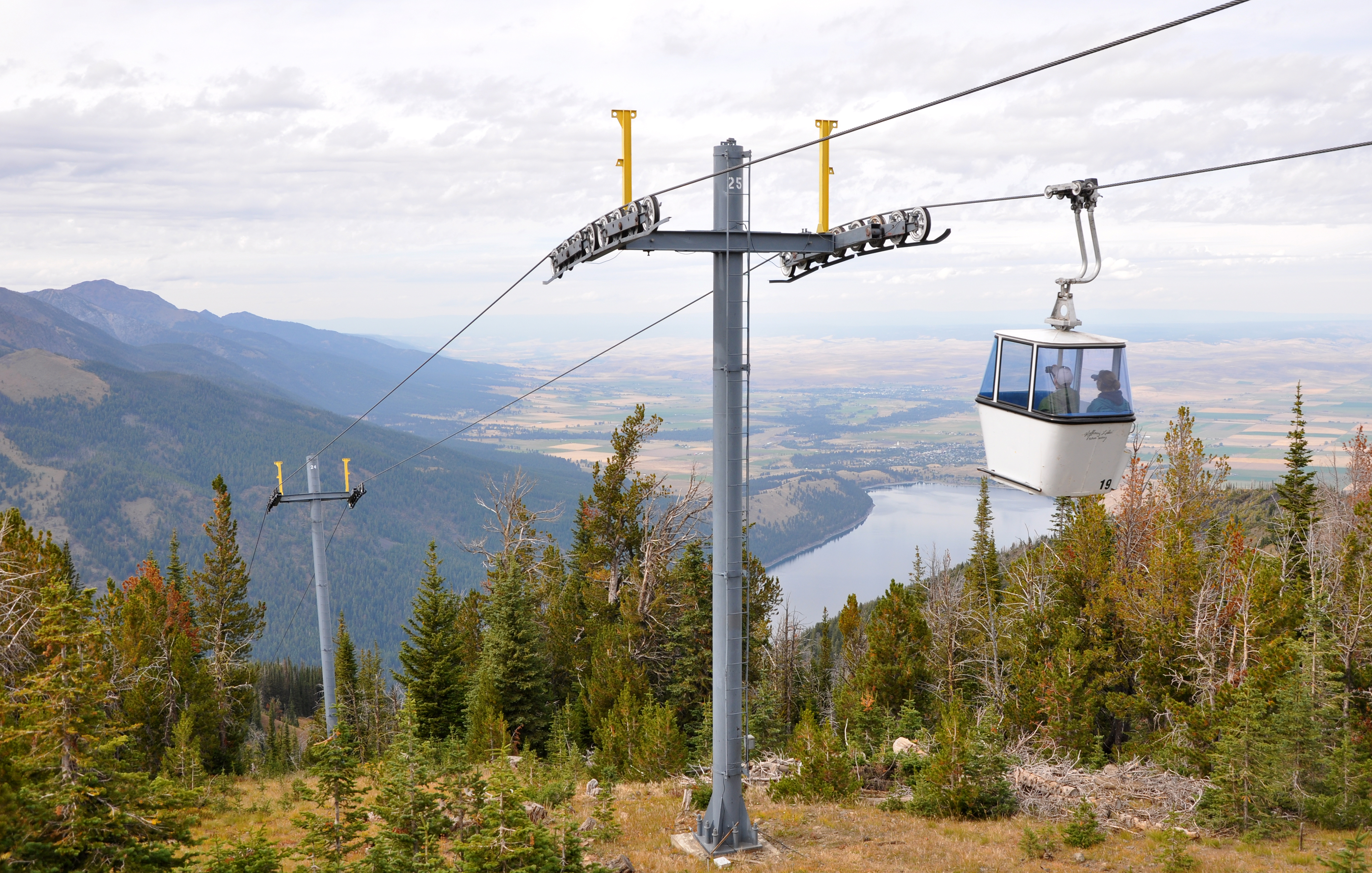 Wallowa Lake Tramway near Joseph, Oregon, in the United States. The tramway ascends Mount Howard in the Wallowa Mountains.